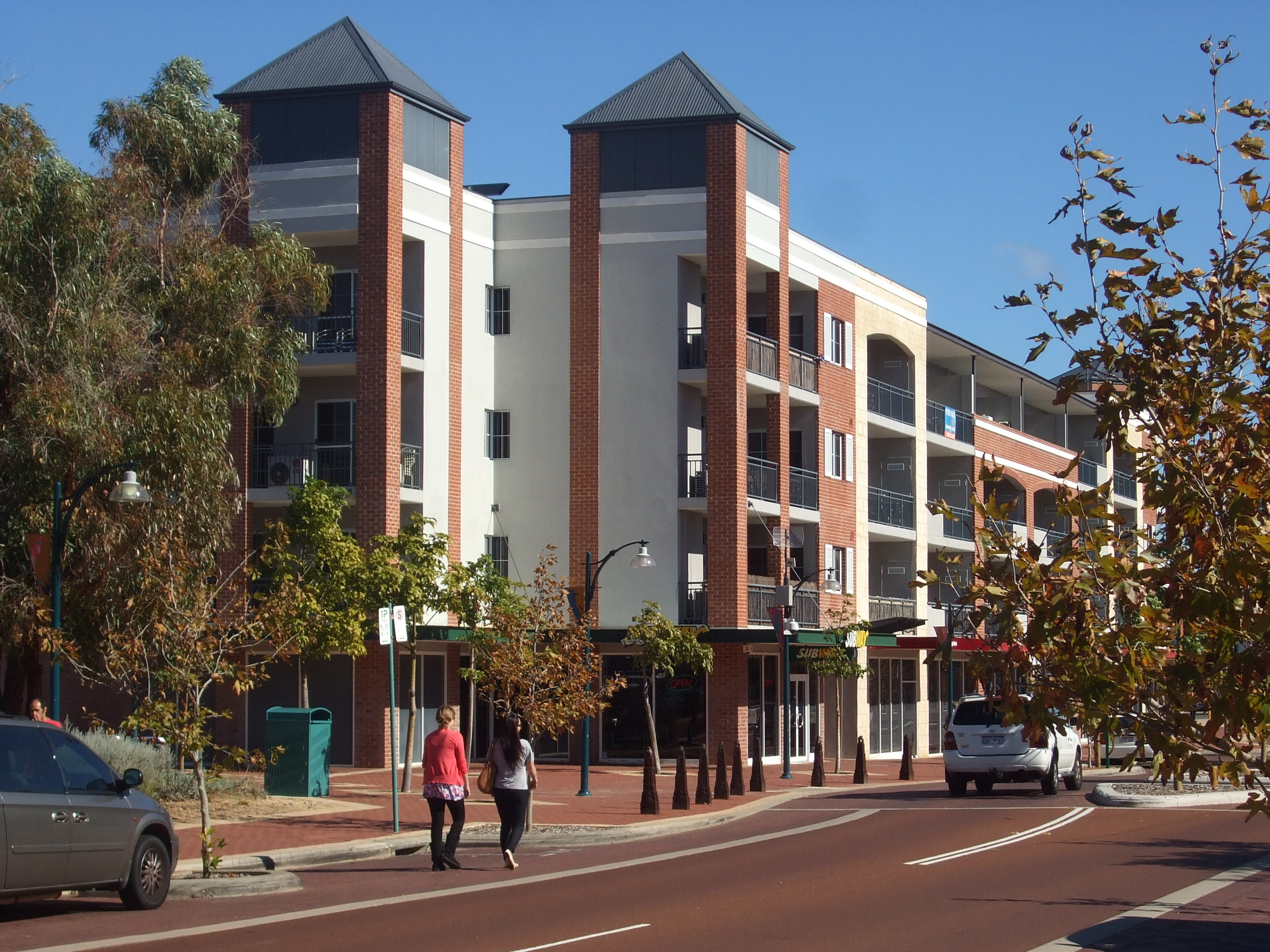 Joondalup Centro apartments as viewed from Boas Avenue, Joondalup, WA.